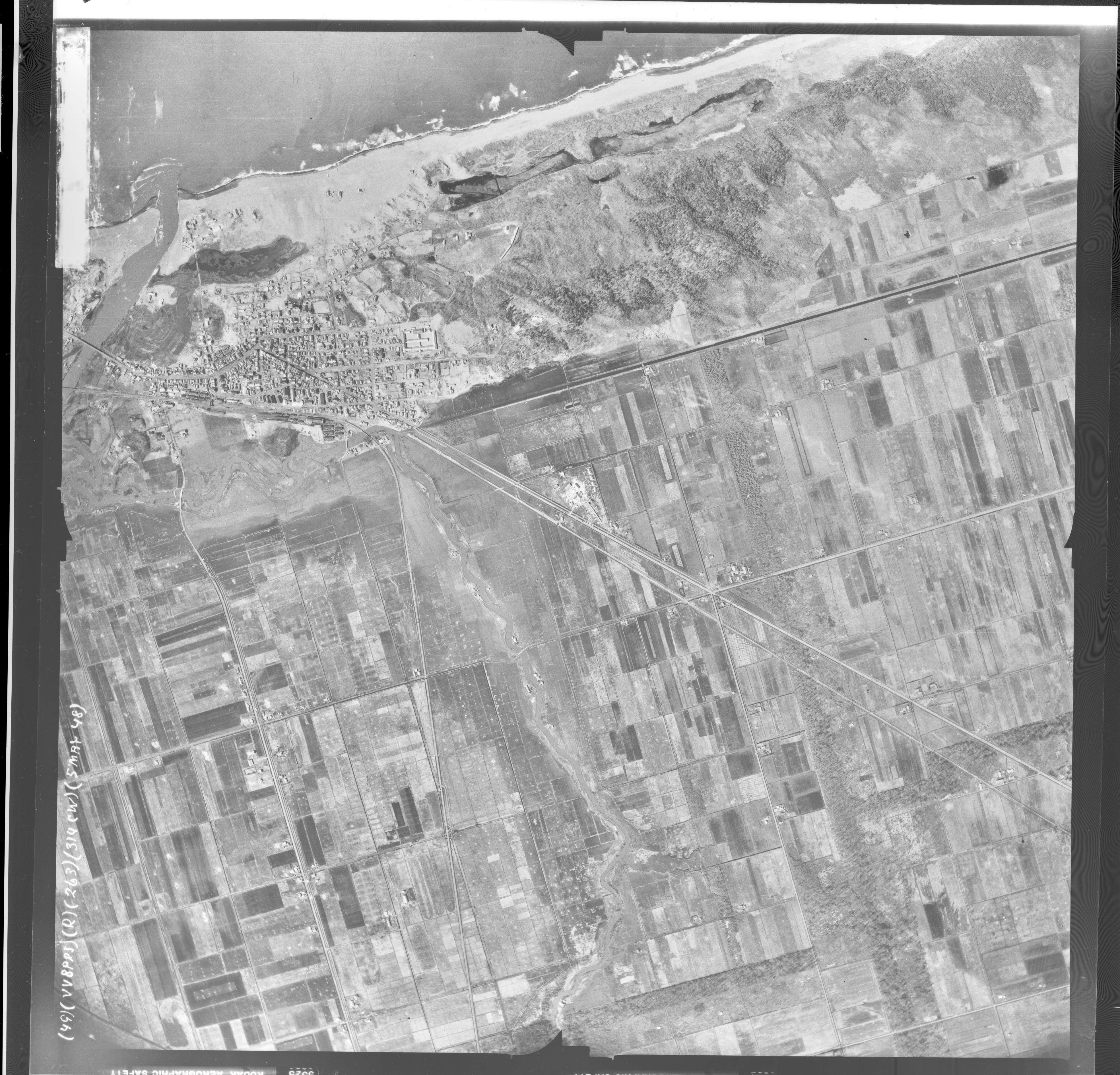 Distributed by Geospatial Information Authority of Japan. Photo by US military. Syari Station(Shiretoko-Syari), Senmo Line and Konboku Line (Japanese National Railways). Syari Town, Hokkaido, Japan.